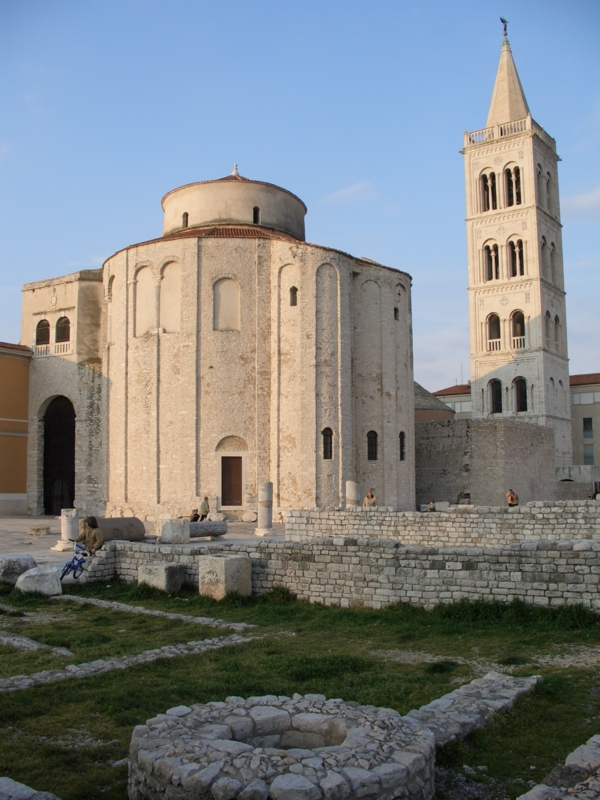 St. Donat's Church and Roman Forum in Zadar